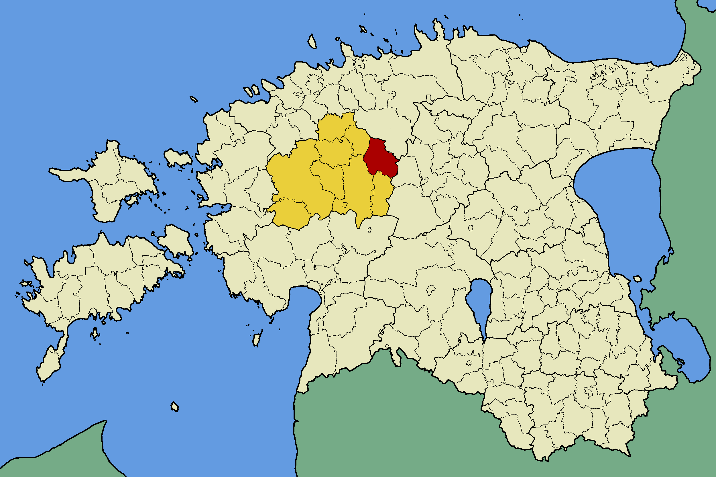 Map of Estonia with borders of municipalities (parishes). Rapla county and Kaiu municipality emphasized.